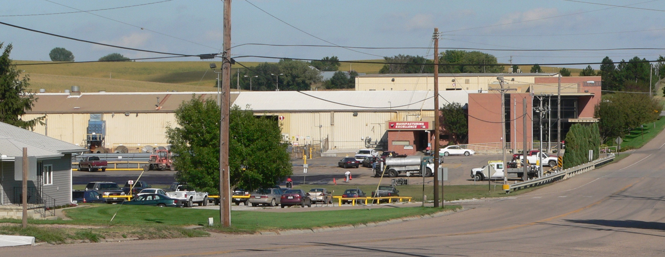 Lindsay Manufacturing plant in Lindsay, Nebraska; seen from the southwest. Nebraska Highway 91 runs through the right foreground.